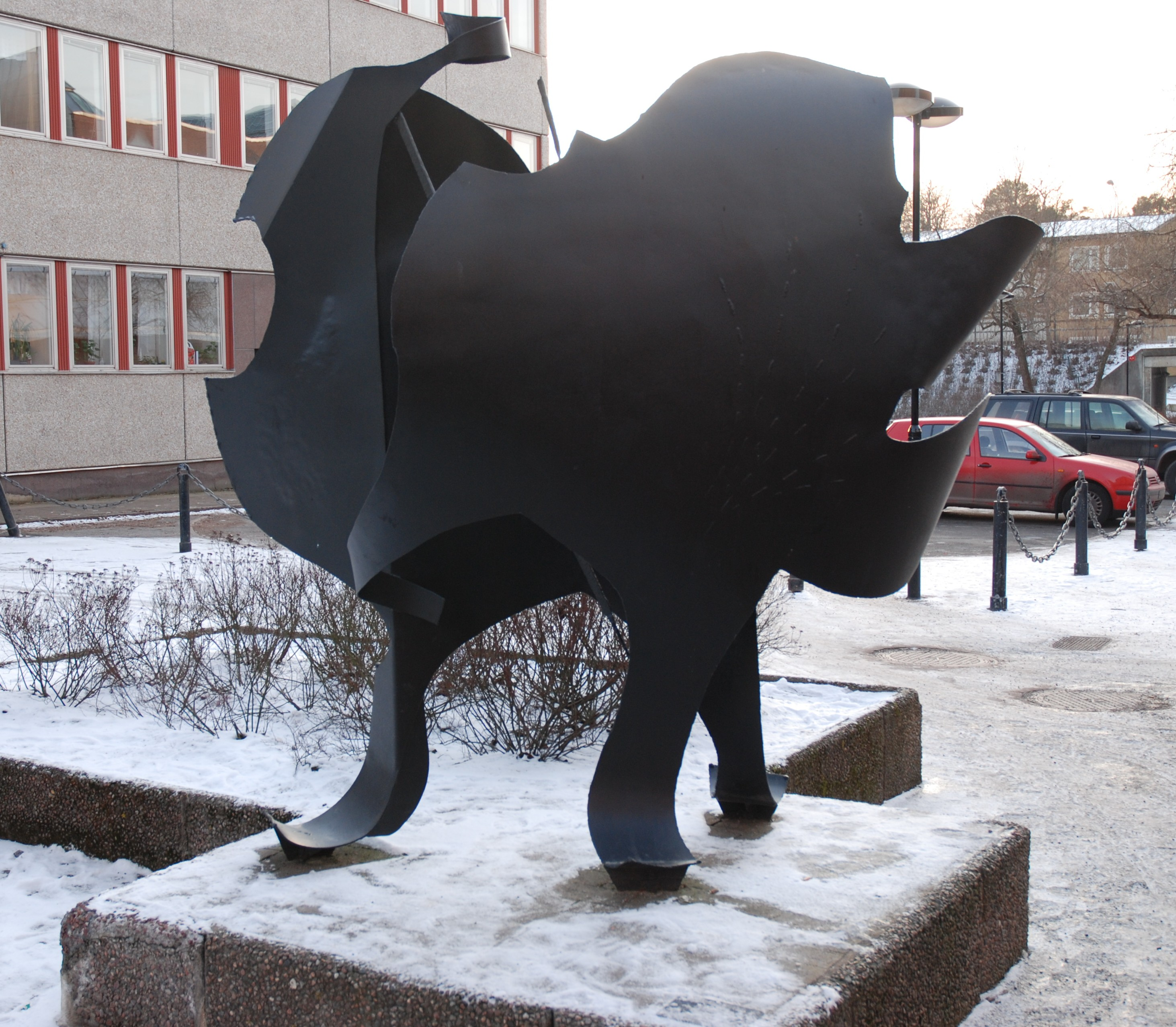 Ebba Ahlmark-Hughes´ Musical movement, Stockholm, Sweden